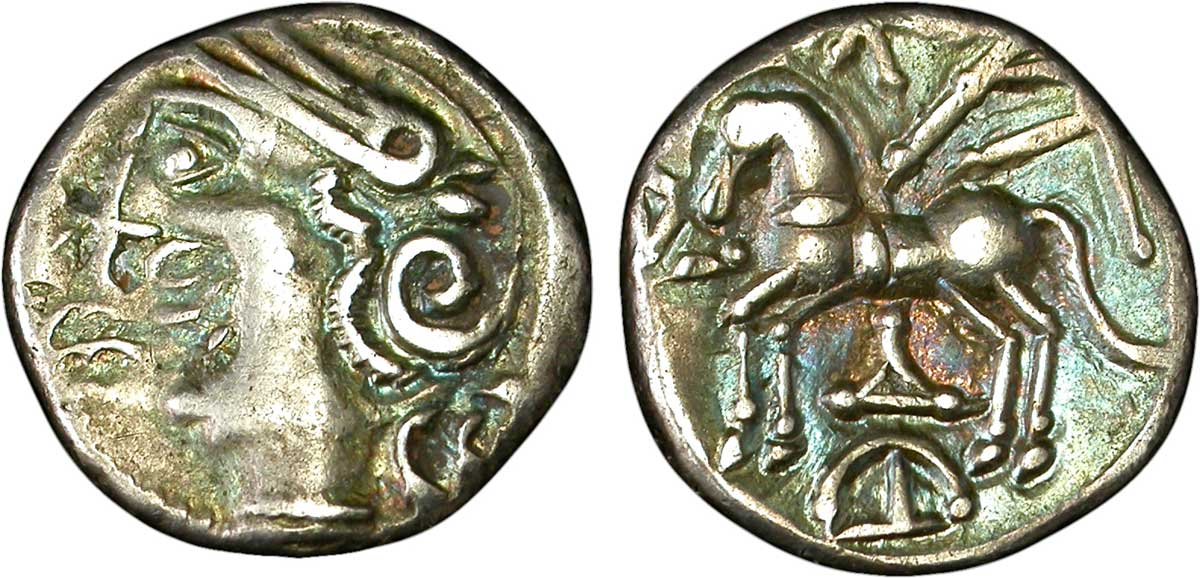 Denier frappé par les Lingons Date : c. 80-50 AC.